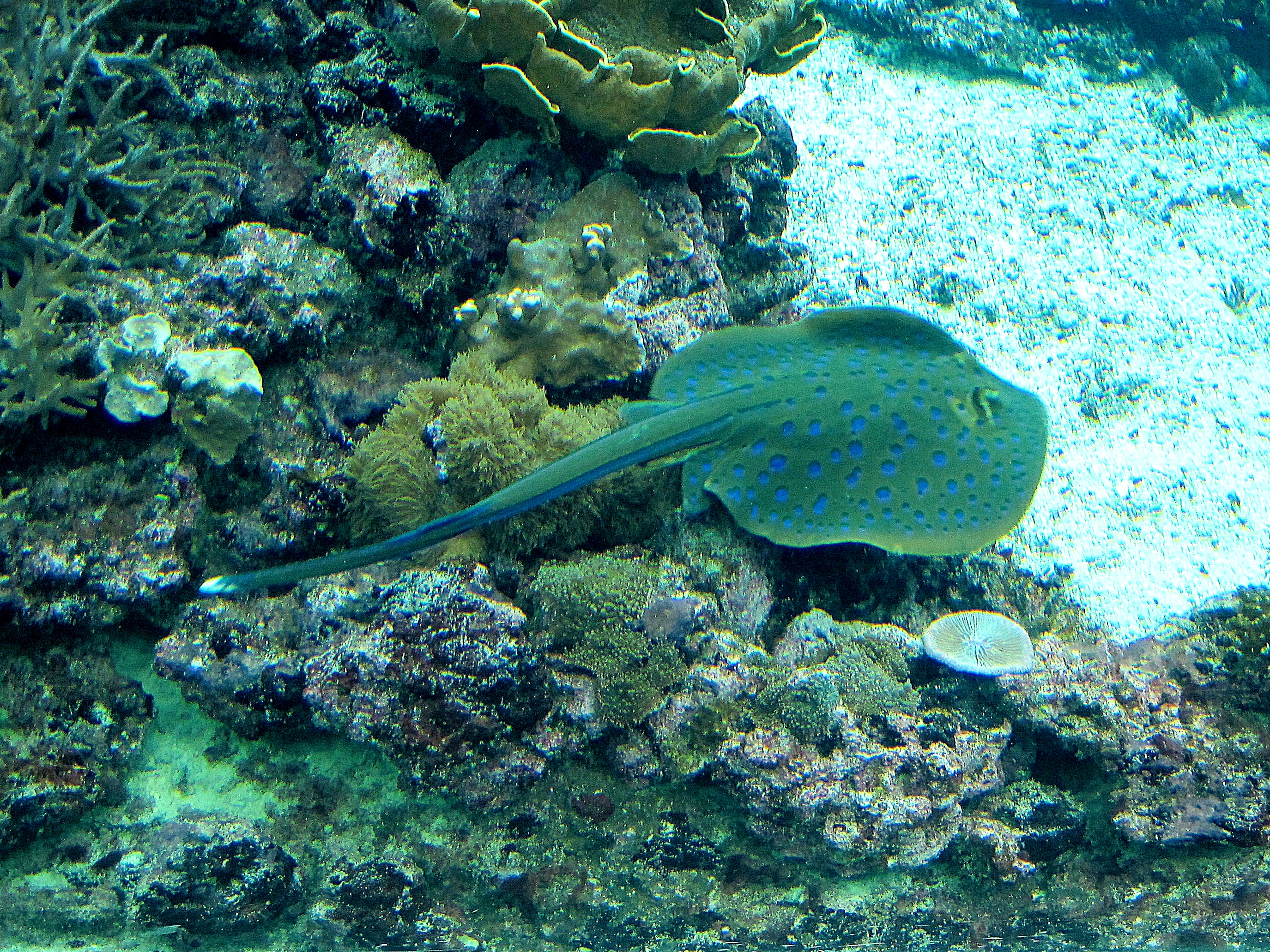 Taeniura lymma (Bluespotted ribbontail ray), Burgers zoo, Arnhem, the Netherlands